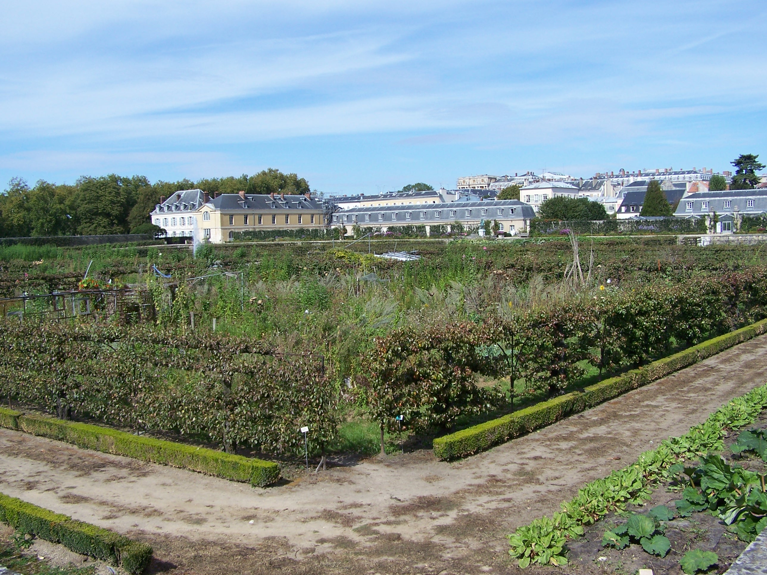 The Potager du Roi in Versailles (Yvelines, France)